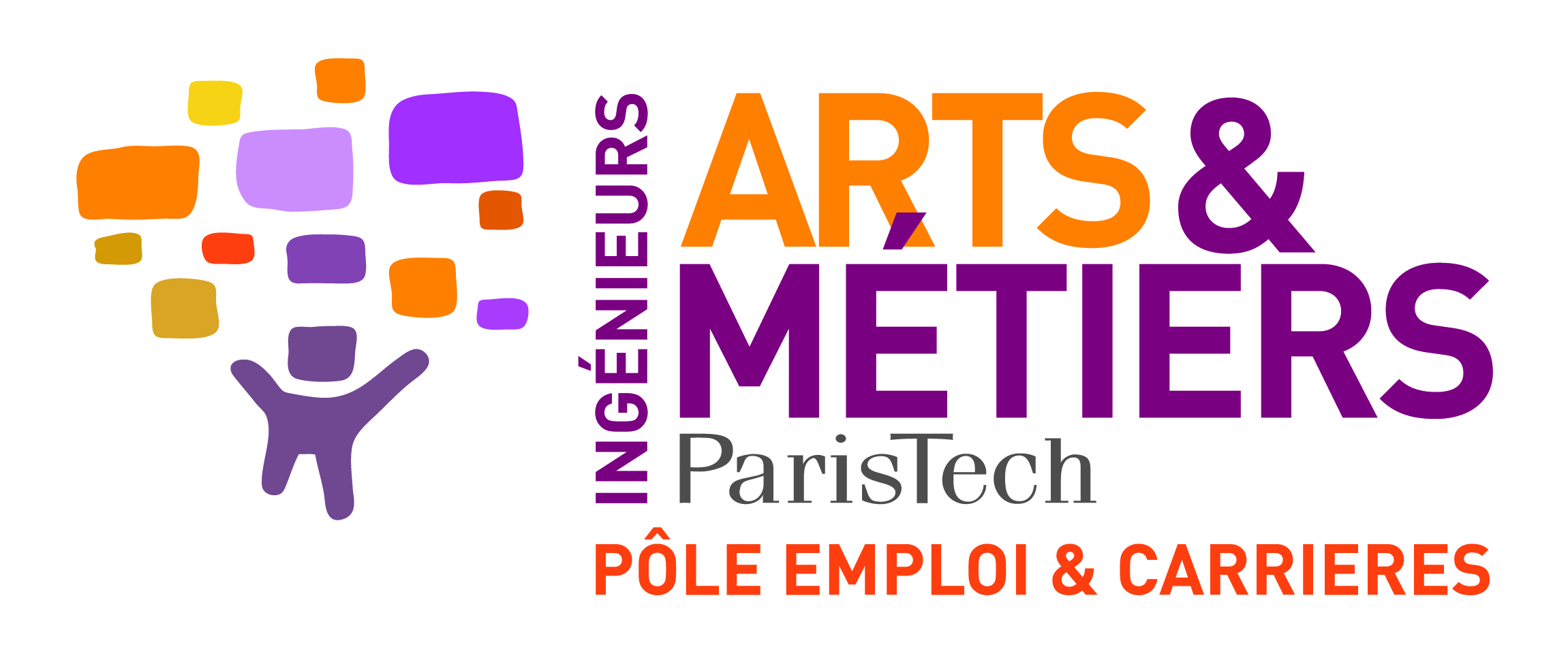 Logo E&C